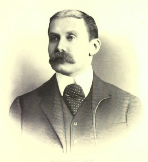 H. Montagu Allan (October 13, 1860 – September 26, 1951)